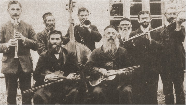 Jewish musicians (Faust family) from Rohatyn (modern western Ukraine). Klezmorim (Klezmers) - traditional musicians among Jews, most of them members of the Faust family. Rohatyn, 1912 (then in Galicia, Austro-Hungarian monarchy). Jewish klezmer music band, antique photo.